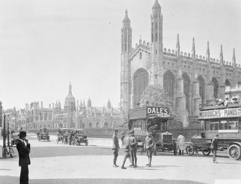 Britain in the First World War 1914-1918 View of the University of Cambridge